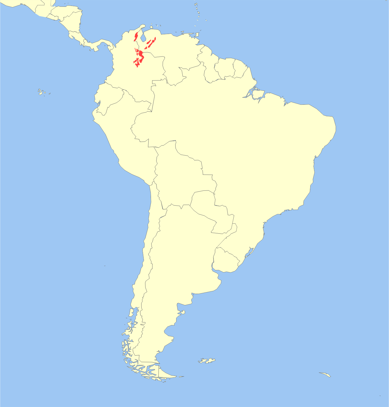 Geographic Distribution of Mérida Brocket (Mazama bricenii).